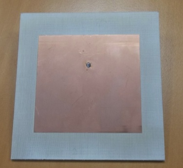 A coaxial feeded patch antenna.